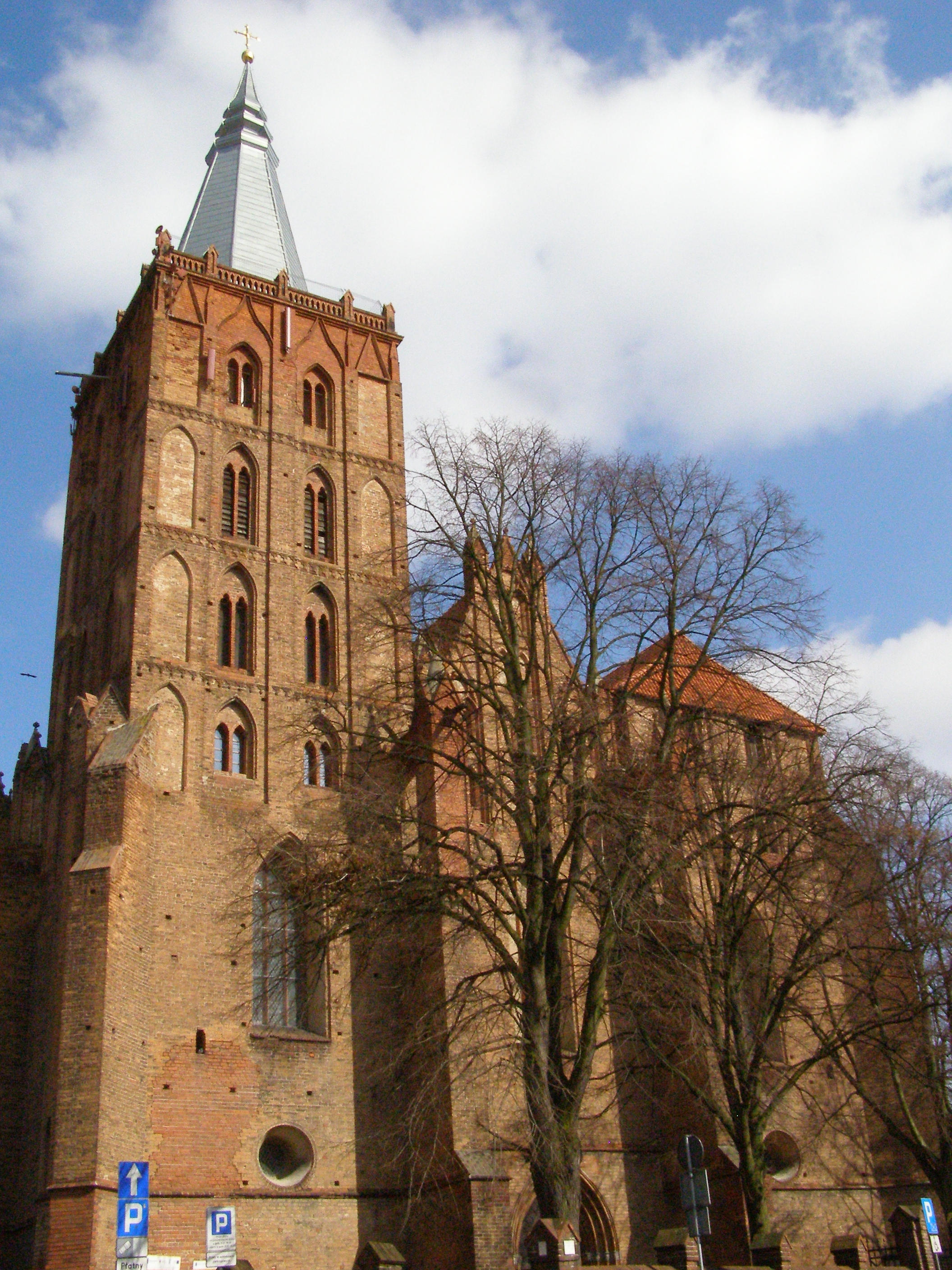 Chełmno - church of the Assumption of Virgin Mary